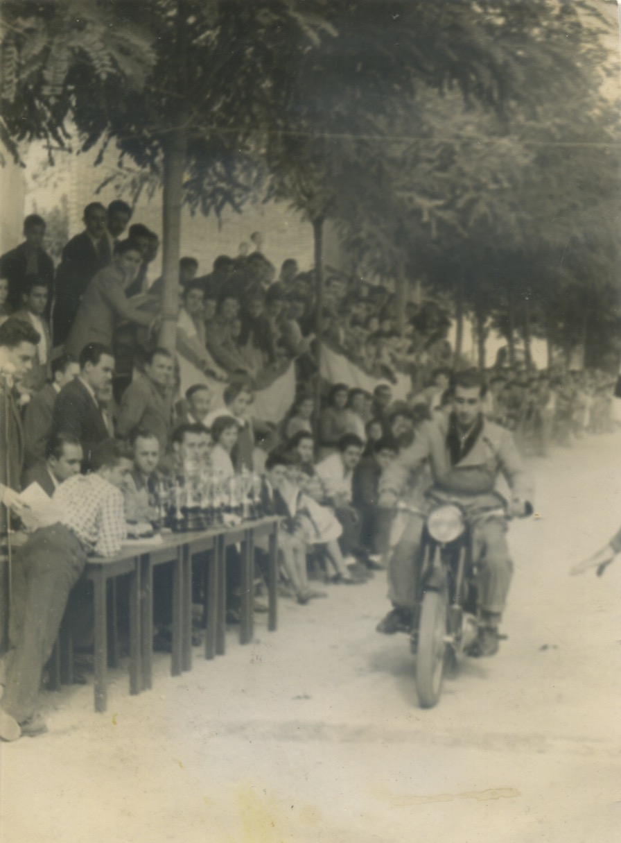 Paco Tombas on his Derbi in a Gymkhana, in the middle 50s